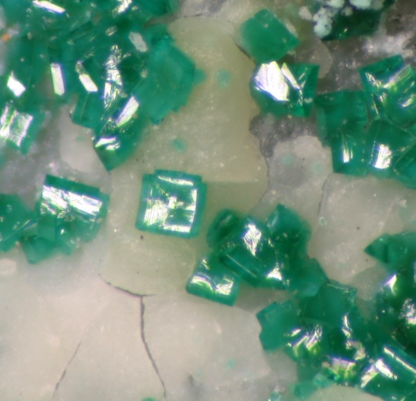 Ktenasite Locality: Maria Josefa Mine, Rodalquilar, Níjar, Almería, Andalusia, Spain Picture width 1 mm. Collection and photograph Christian Rewitzer. (Microprobed specimen)